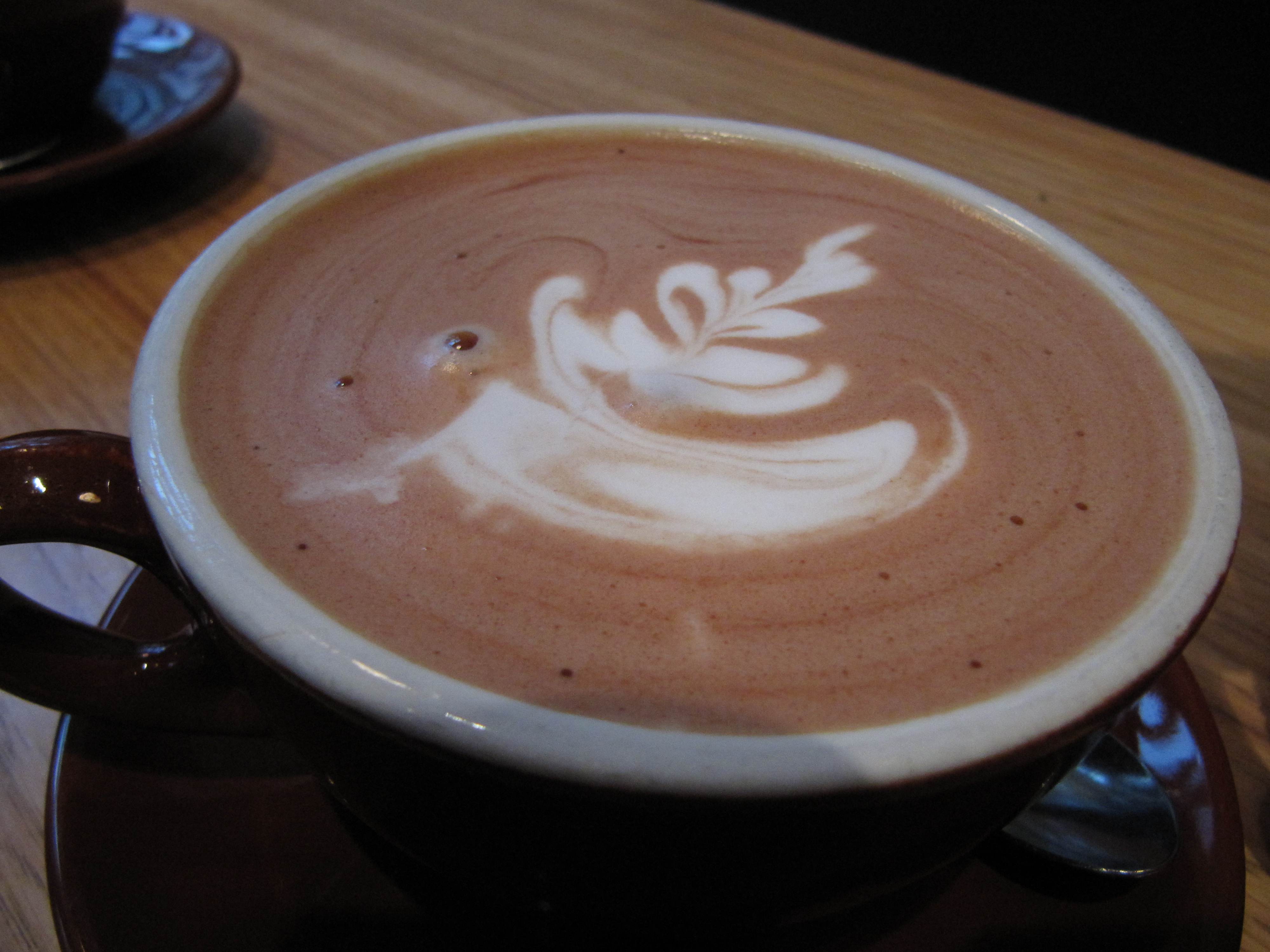 Hot chocolate